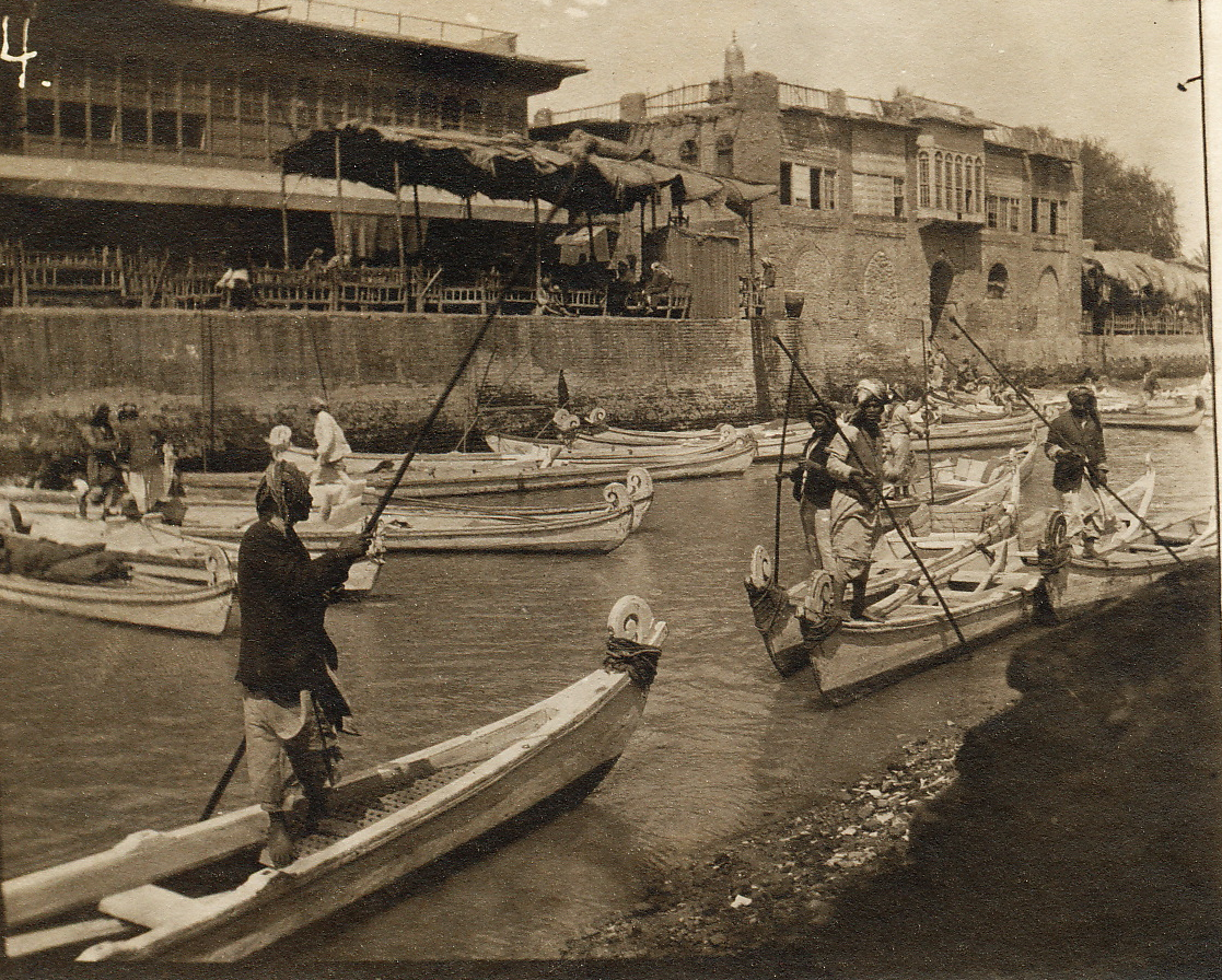 Canal in Basra with "Balams". Photo by Swedish businessman Arne C Waern, Gothenburg, Sweden travelling to Bagdad.